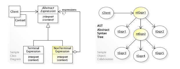 A sample class and object diagram for the Interpreter design pattern.